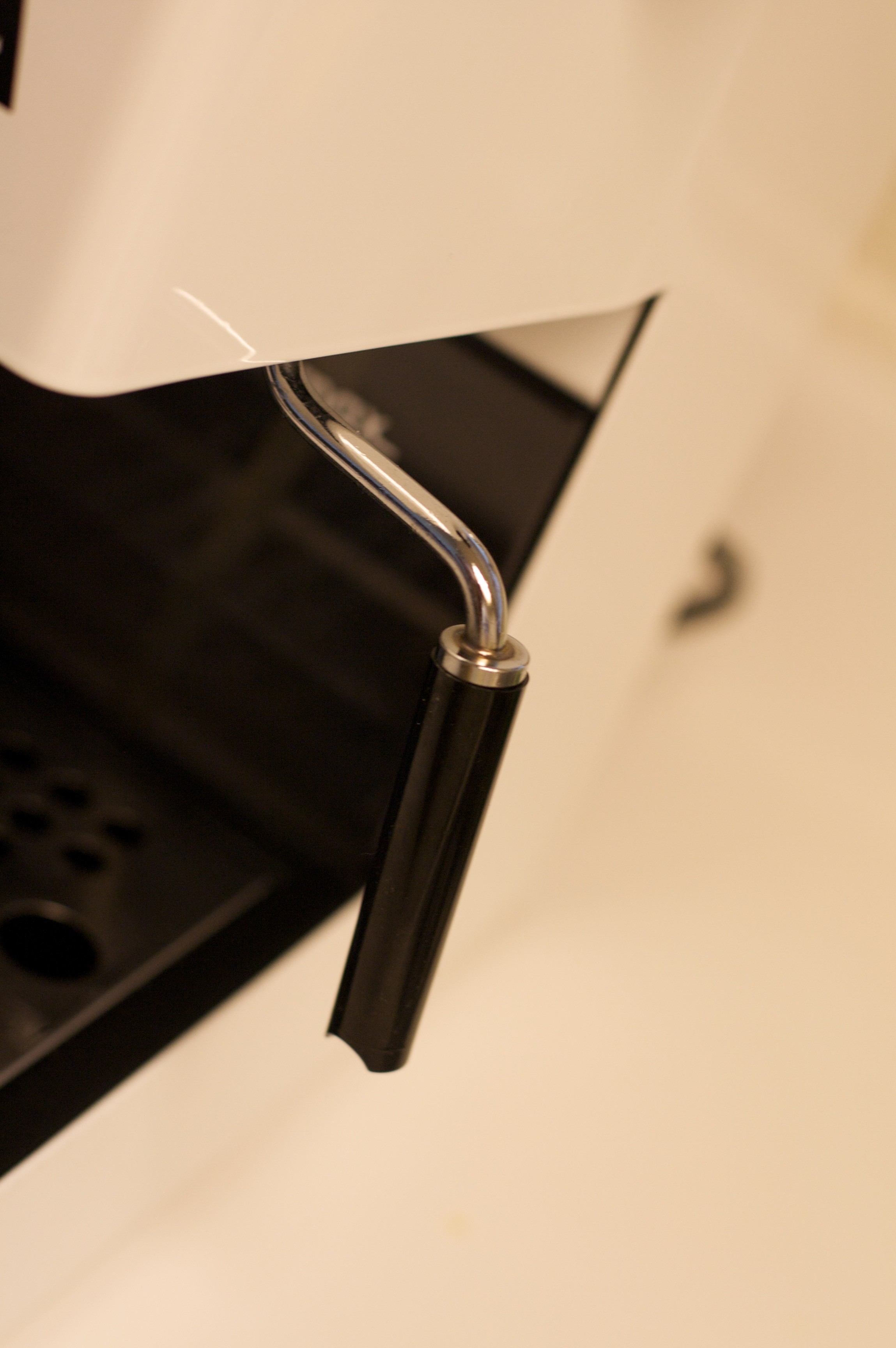 Panarello Wand Attachment